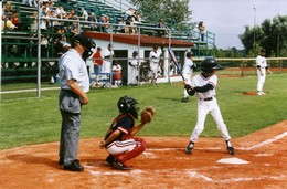 Game on the Little League Basseball pitch in Kutno